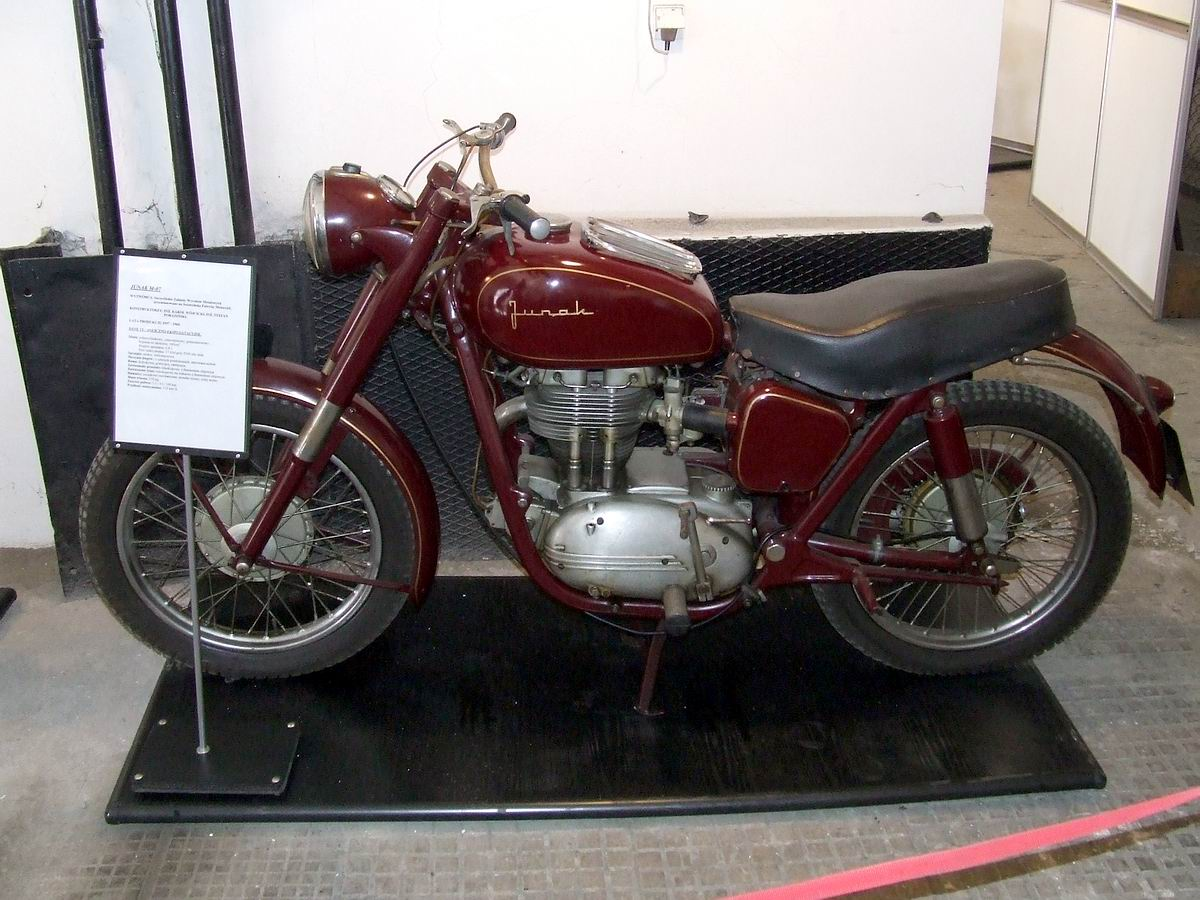 Polish Junak M07 motorcycle, 1957 - 1960